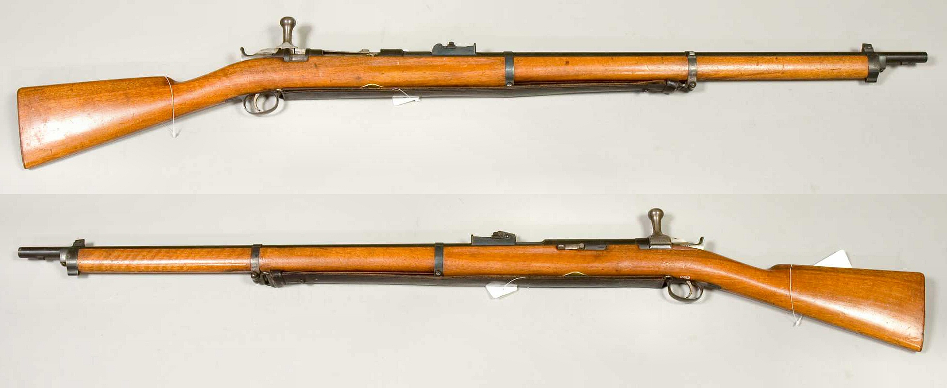 Swedish made Jarmann repeating rifle "försöksmodell 1881" ("three-band" trials model, which apart from the number of bands on the stock was identical to the Norwegian Model 1884 Jarmann rifle), made by Carl Gustafs Stads Gevärsfaktori. The rifle was accepted in 1884 by the Norwegian army after the joint Swedish-Norwegian rifle trials of the early 1880's, it was also used in limited numbers by the Swedish Navy but not by the Swedish Army. Caliber 10.15x61mmR. From the collections of Armémuseum (Swedish Army Museum), Stockholm.